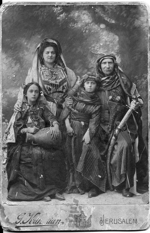 A Jewish family dressed in traditional Arab costumes, from the Es Salt district of Transjordan, including: a light-haired man, with a trimmed beard and mustache, wearing a keffiyeh, guns in his belt, and a scimitar; a boy; and a woman and a girl, both wearing embroidered dresses and necklaces, with the girl holding a jug.